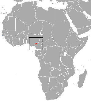 Cameroonian Shrew (Crocidura picea) range